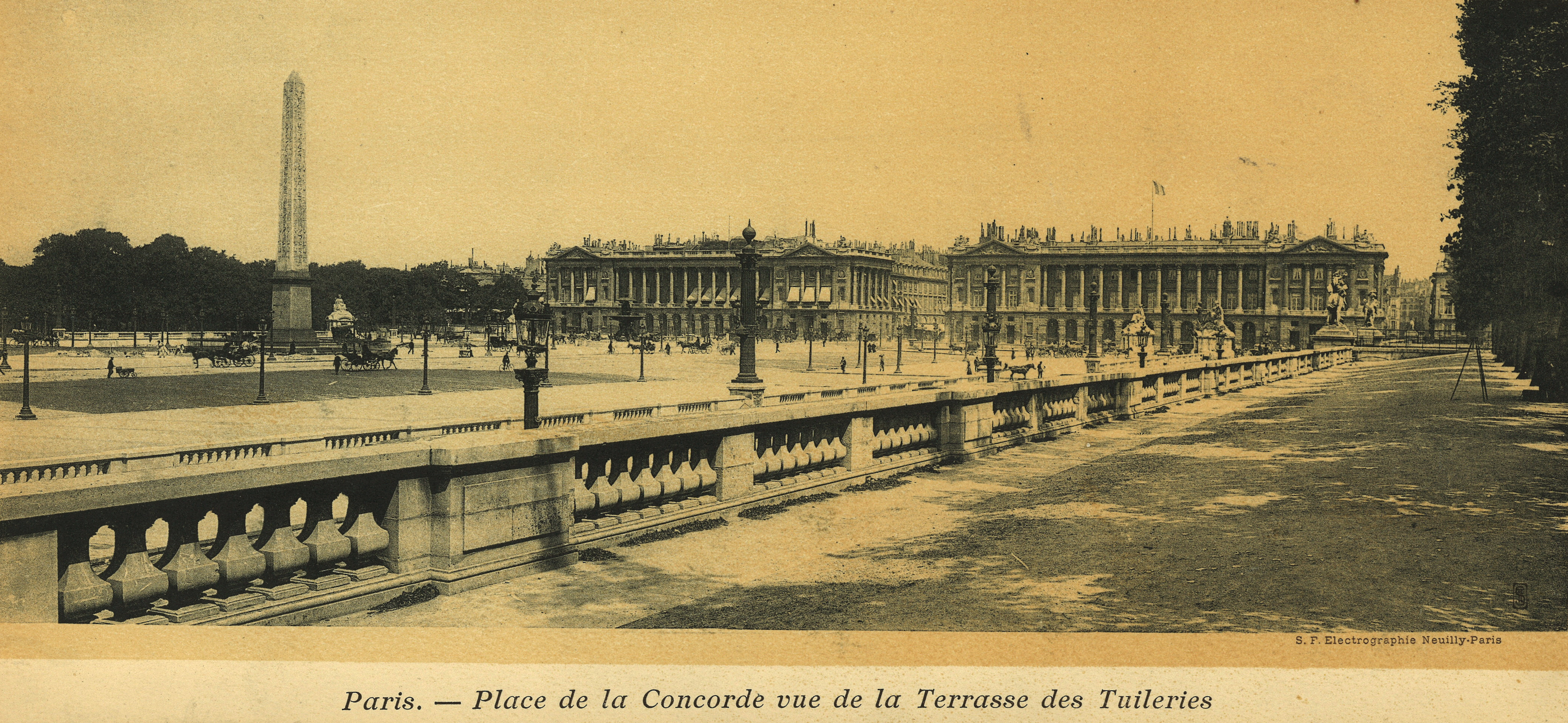 Turn of the century photo